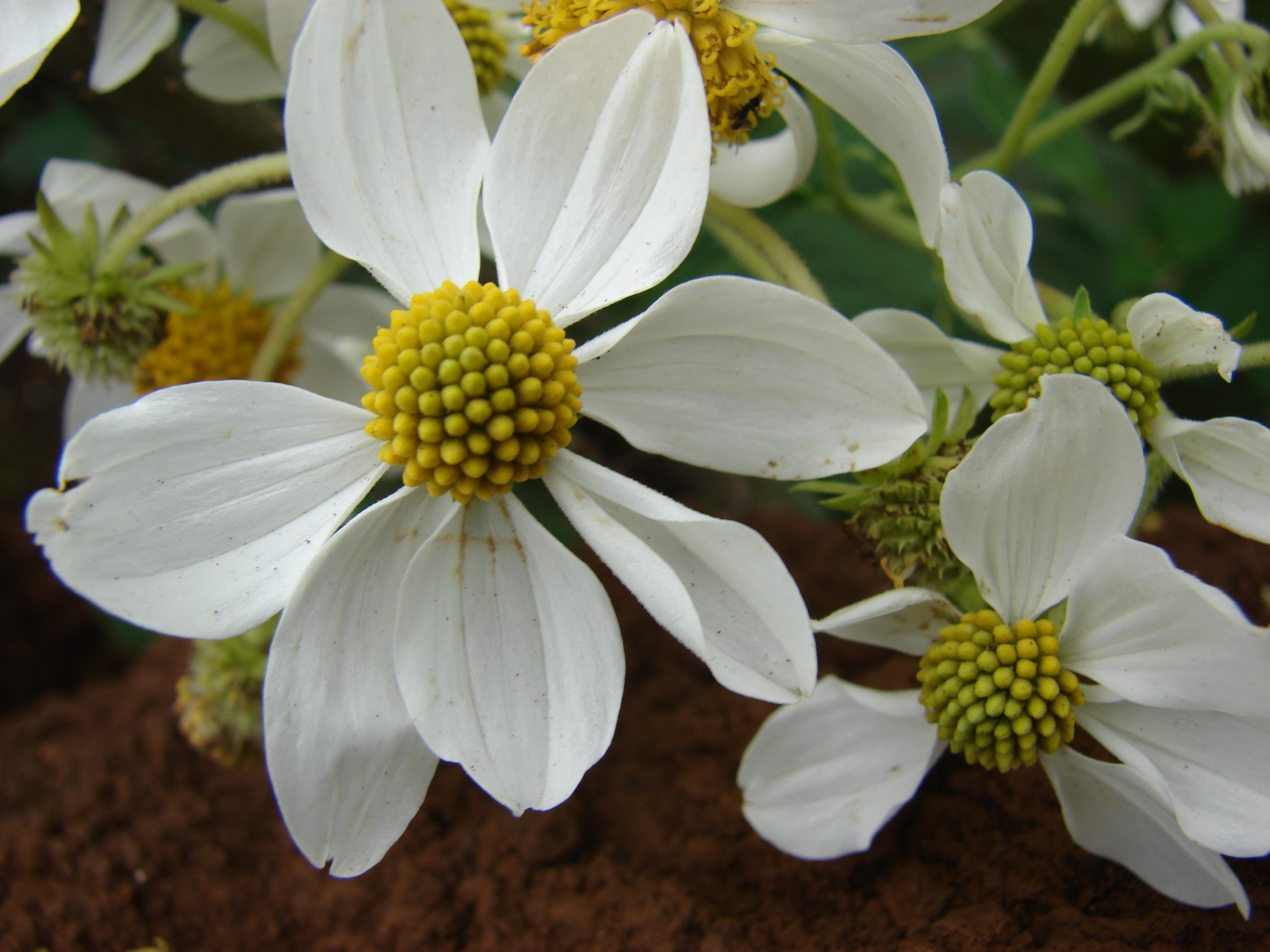 Montanoa hibiscifolia (flowers). Location: Kahoolawe, Upper Kaulana